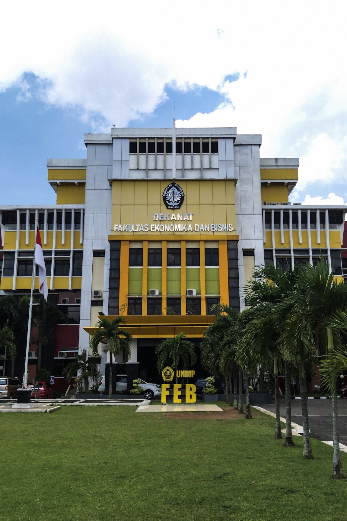 Dekanat FEB Undip